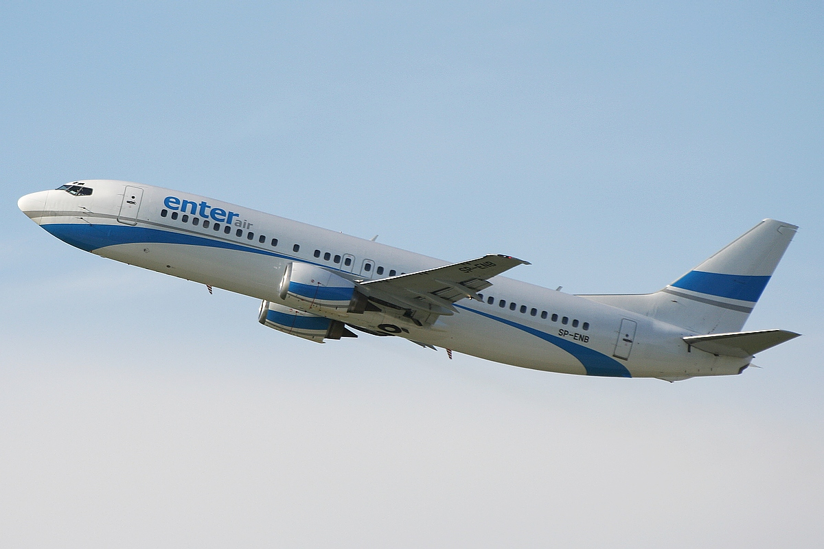 SP-ENB in Cracow